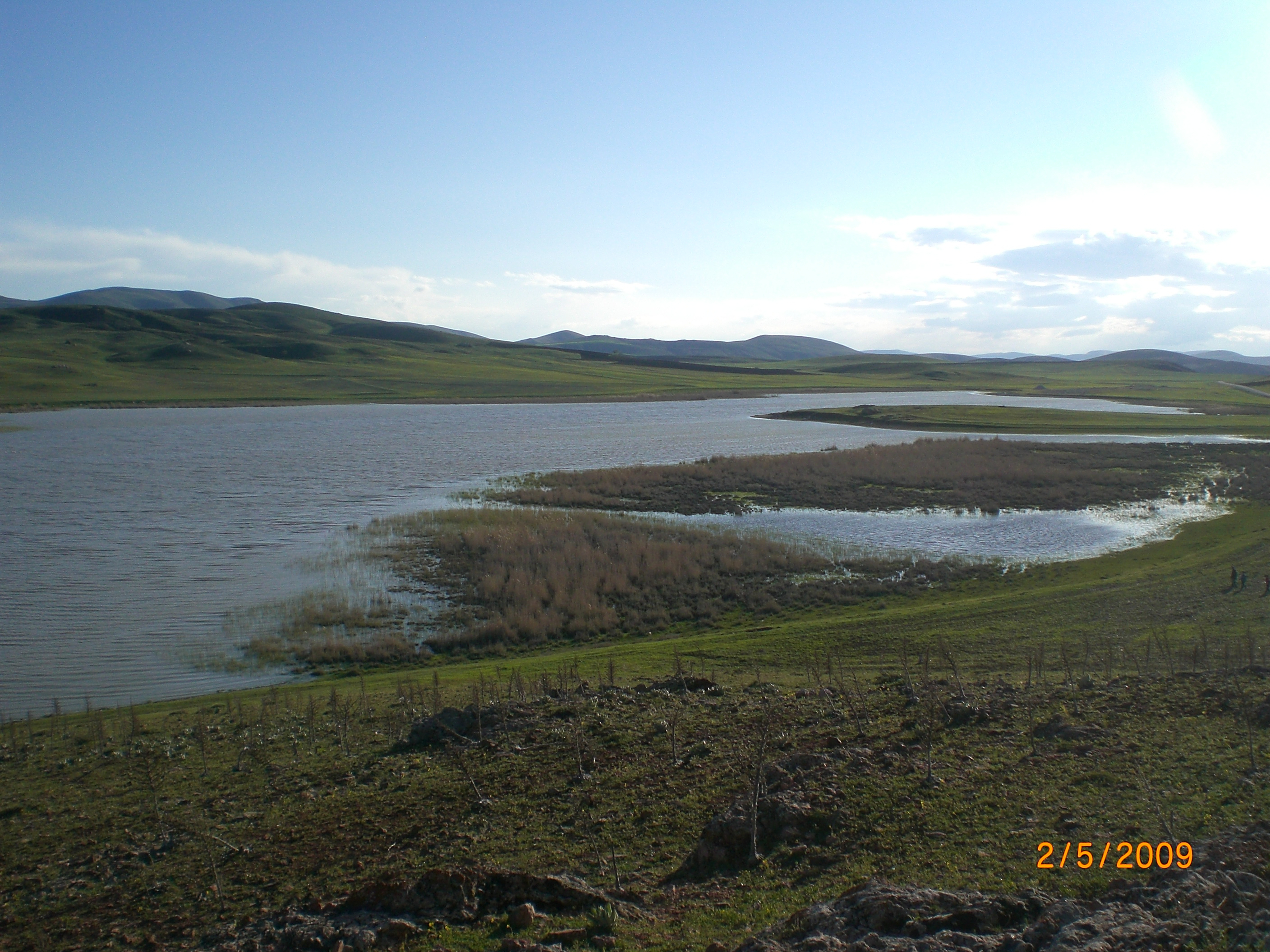 Salih Canpınar's impression of the Kömüşini lake